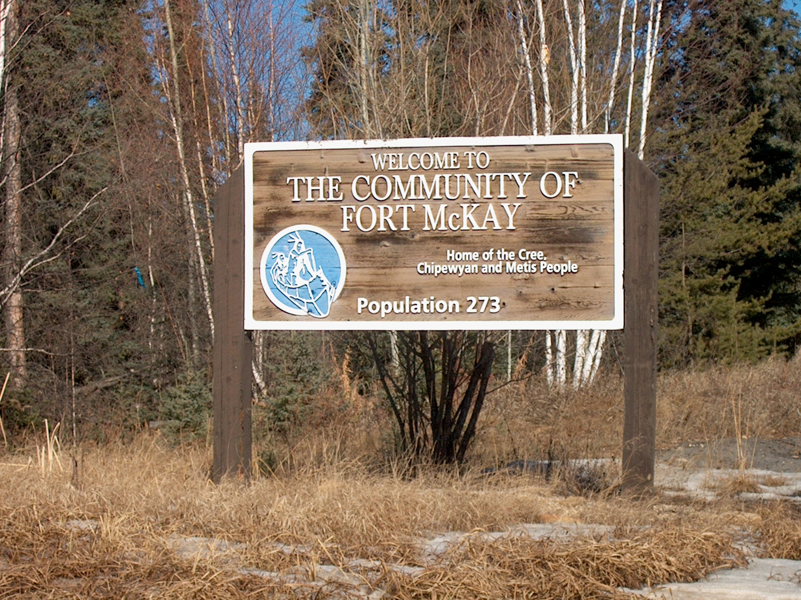 Fort McKay Welcome sign, Alberta, Kanada.